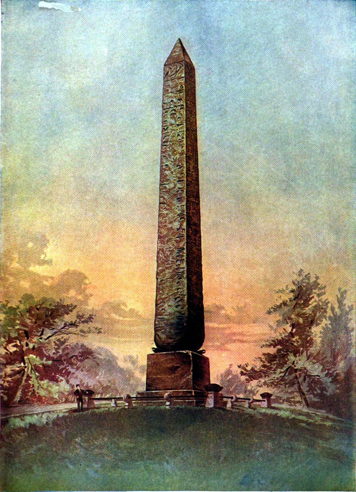 One of the so-called Cleopatra's Needles as it appears in its location in Central Park, New York City